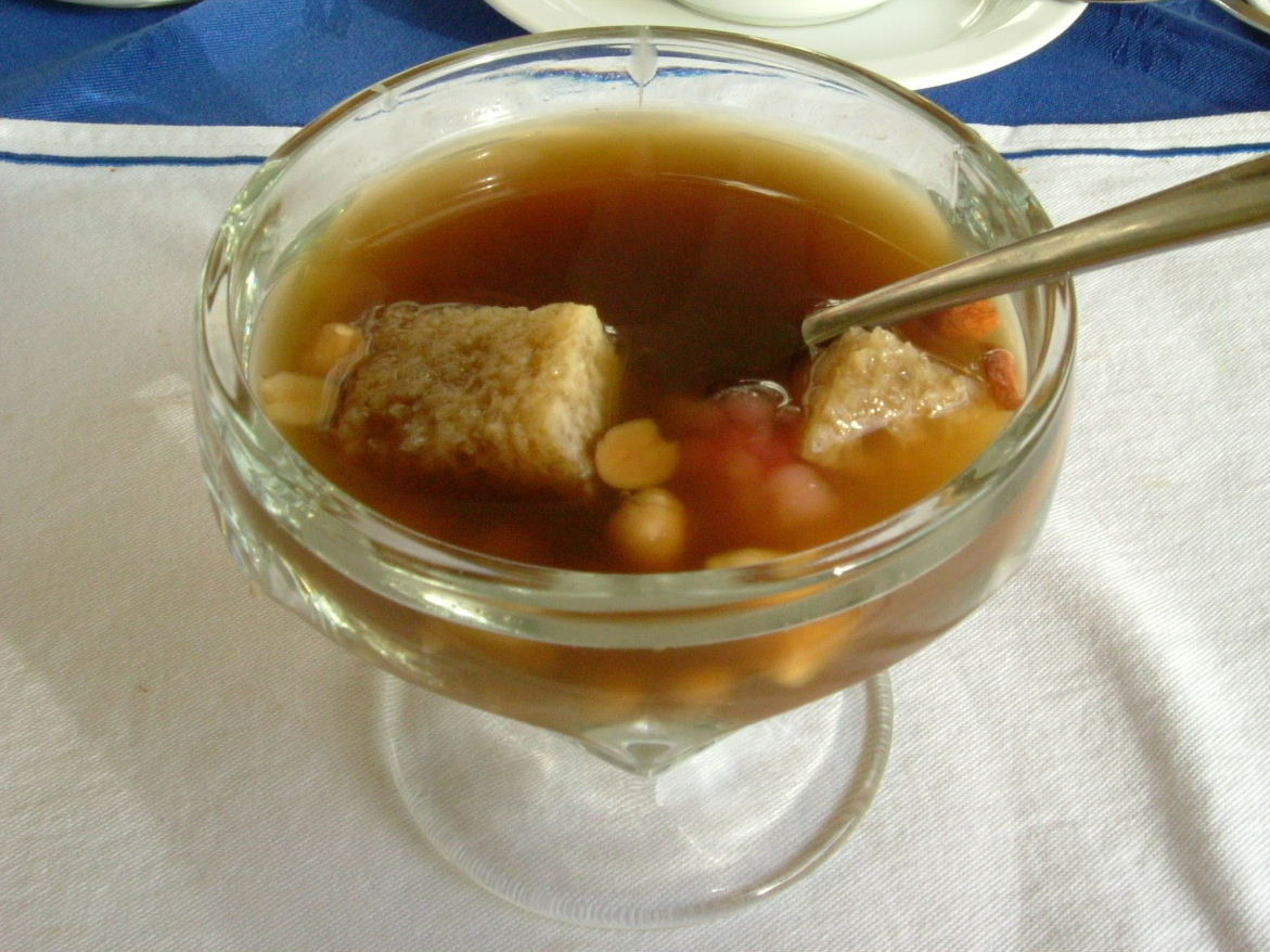 Sekoteng sweet ginger drink